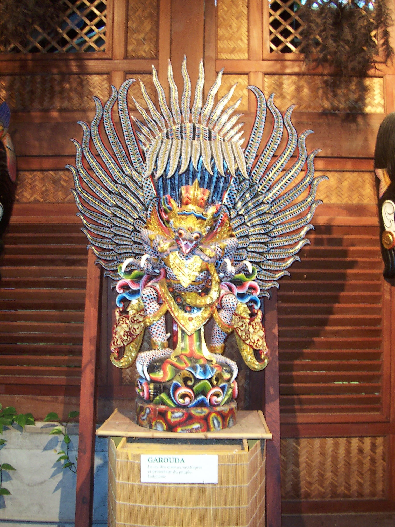 Picture of a statue of Garouda (indian god of birds) at the Quebec zoological garden. Photo par/taken by Sébastien Savard